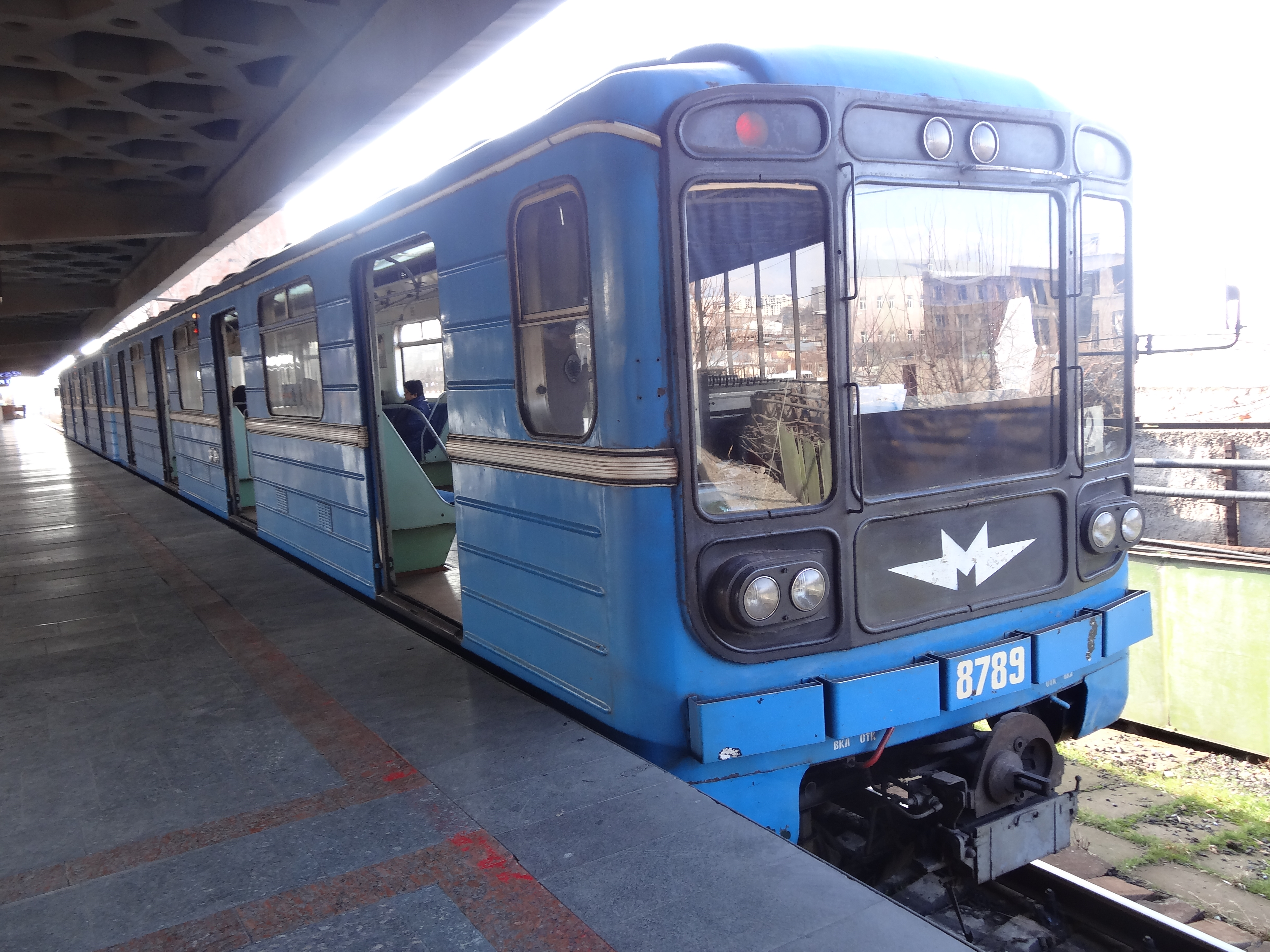 Train of Yerevan Metro at David of Sasun metro station